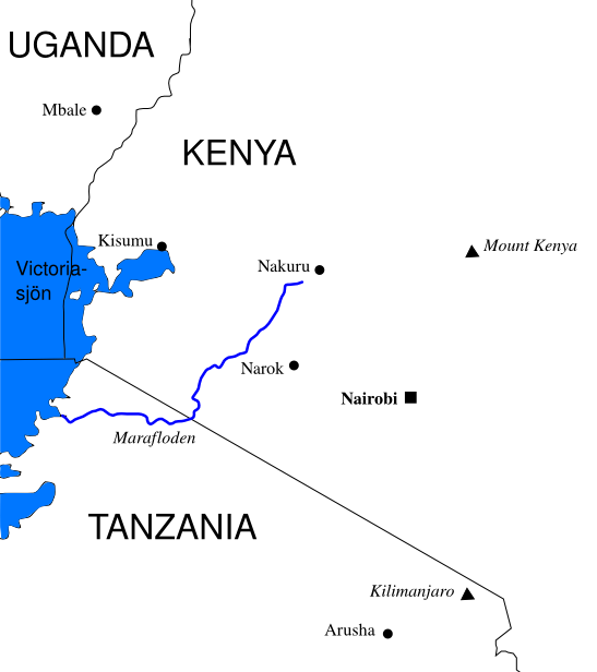 Maraflodens sträckning genom Kenya och Tanzania